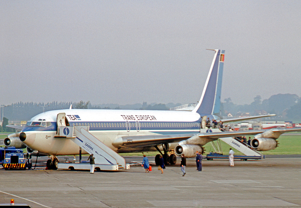 Boeing 707-131 OO-TED of Trans European Airways at Brussels Airport in 1977